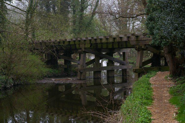 Last Of The Line